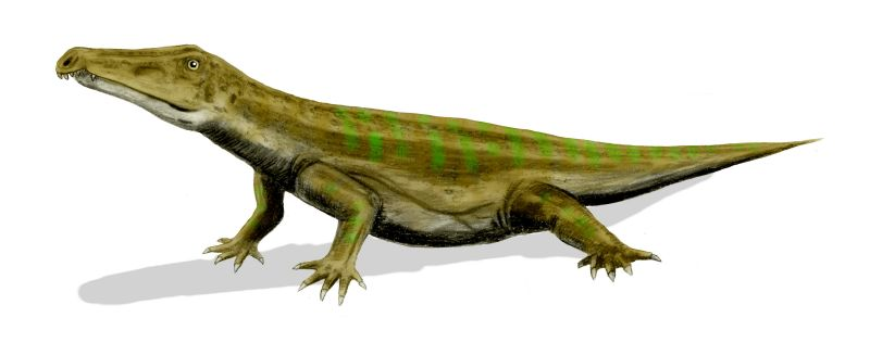 Chasmatosaurus yuani, an Archosauromorph from the Early Triassic of China